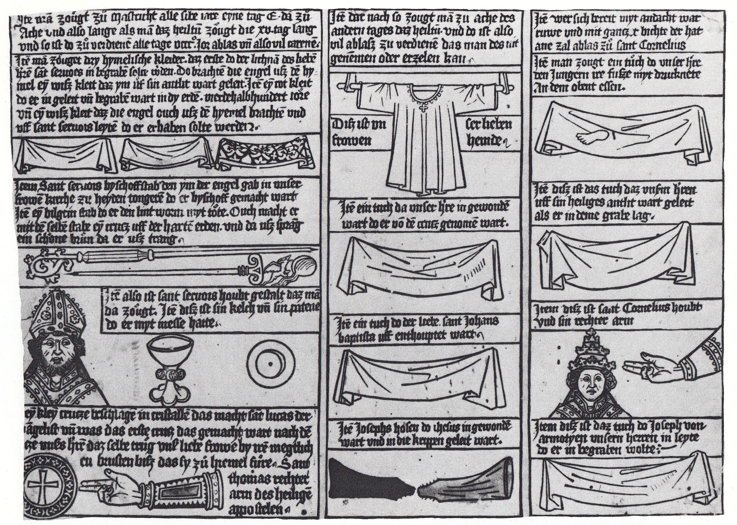 Pilgrim souvenir engraving for the 7-yearly pilgrimages (Heiligtumsfahrt) of Maastricht, Aachen and Kornelimünster, printed in Mainz or the Middle Rhine Area in 1468(?). The engraving shows the main relics in these three towns, that were shown to the pilgrims once in seven years around the same time. Paper, 27,5 x 37,5 cm. Collection: Staatliche Graphische Sammlung, Munich.